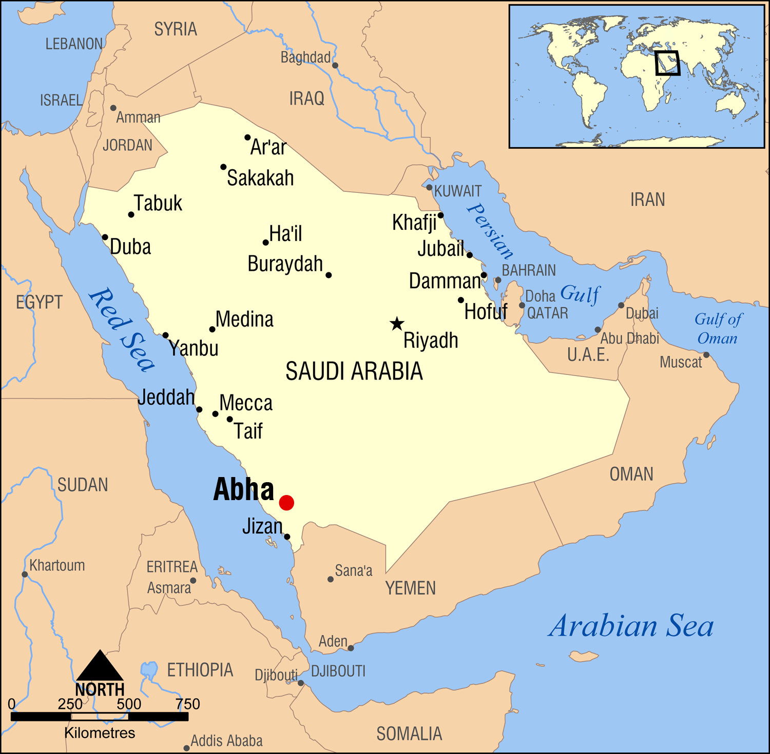 Locator map of Abha, Saudi Arabia. Created by NormanEinstein, May 5, 2006.